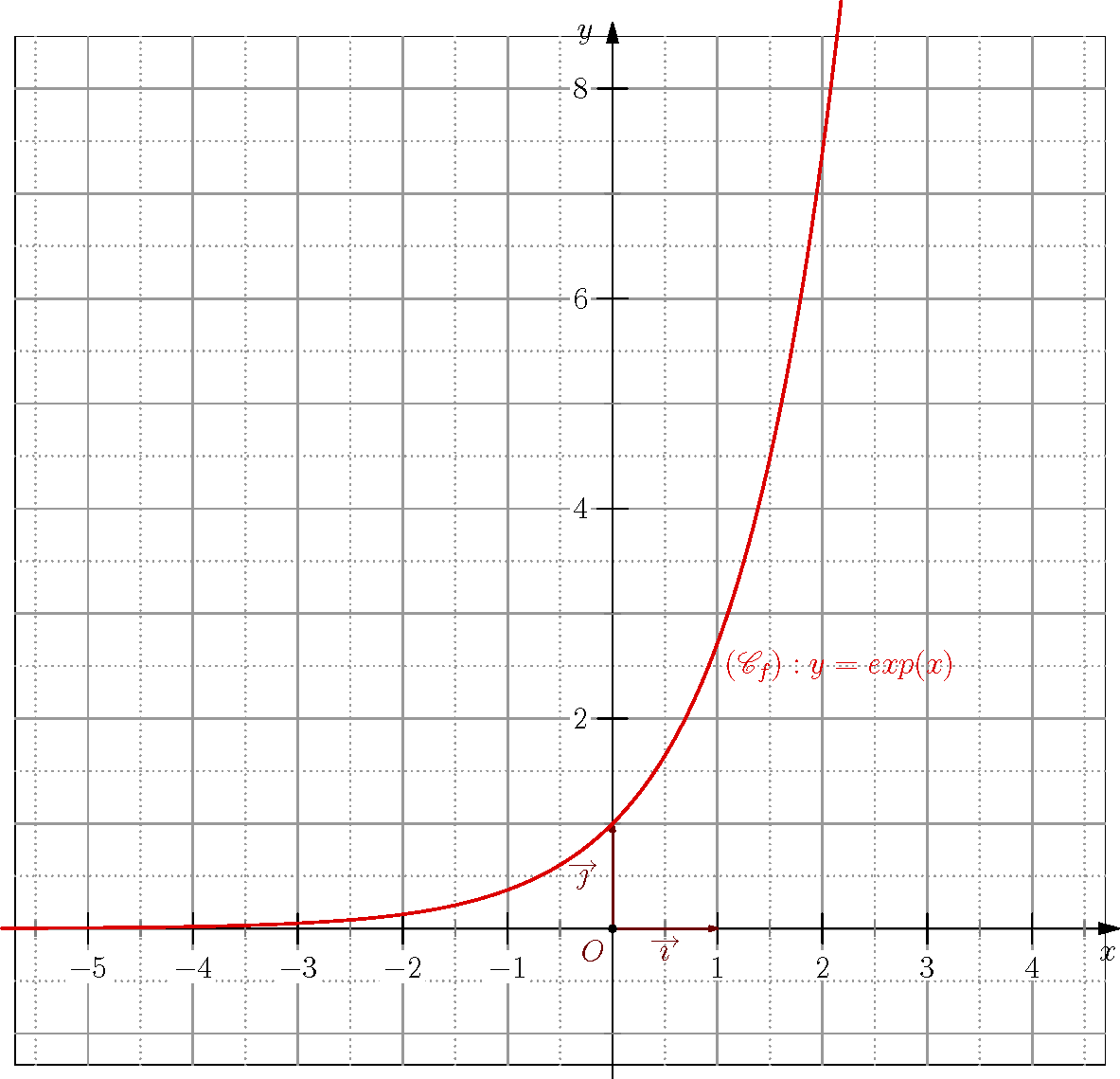 Graphical representation of the exponential function exp(x) on the interval −6 ≤ x ≤ 2